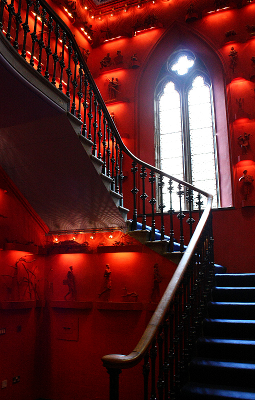 The Hub, Edinburgh